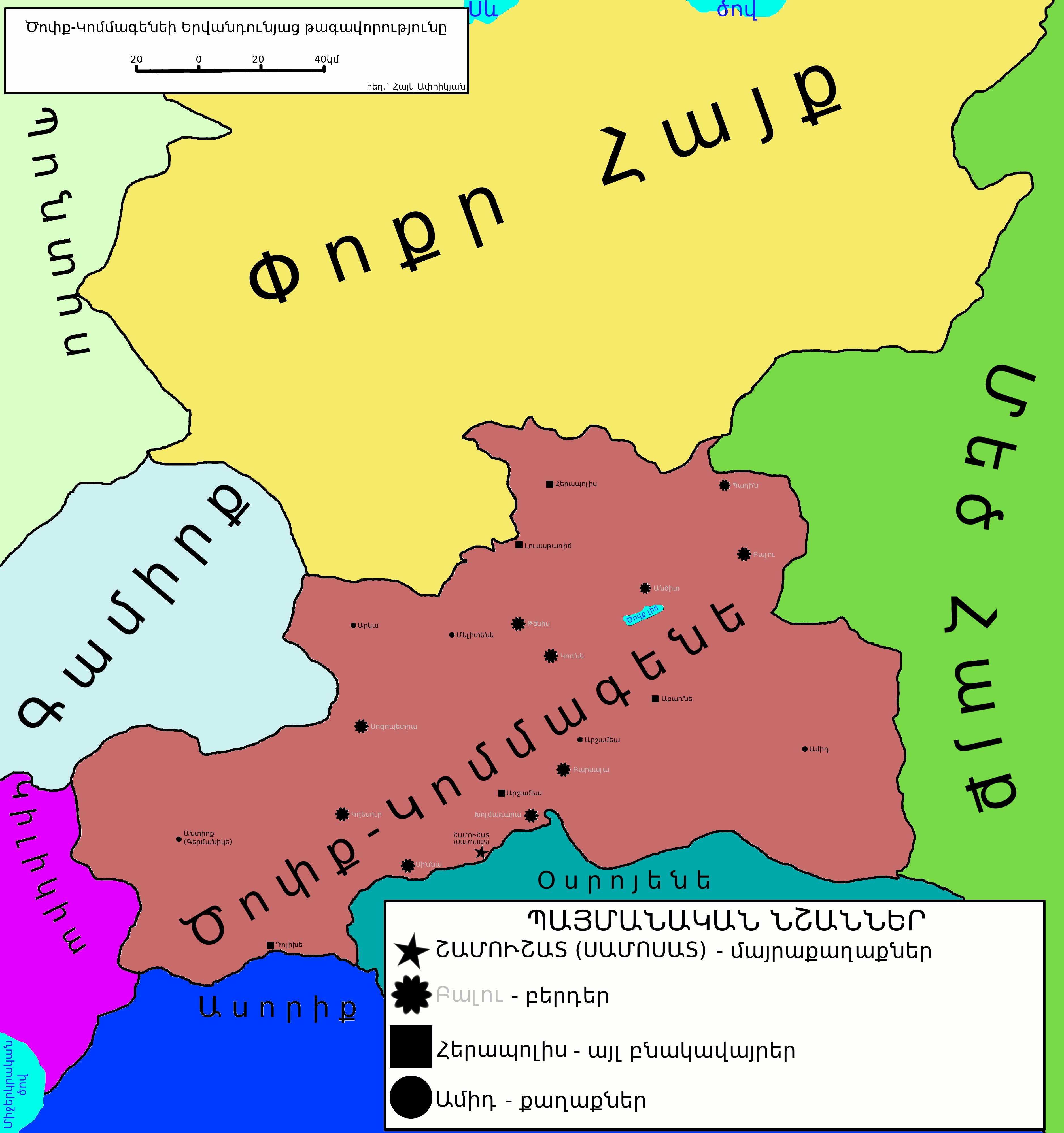 Armenian kingdom of Sophene-Commagene.